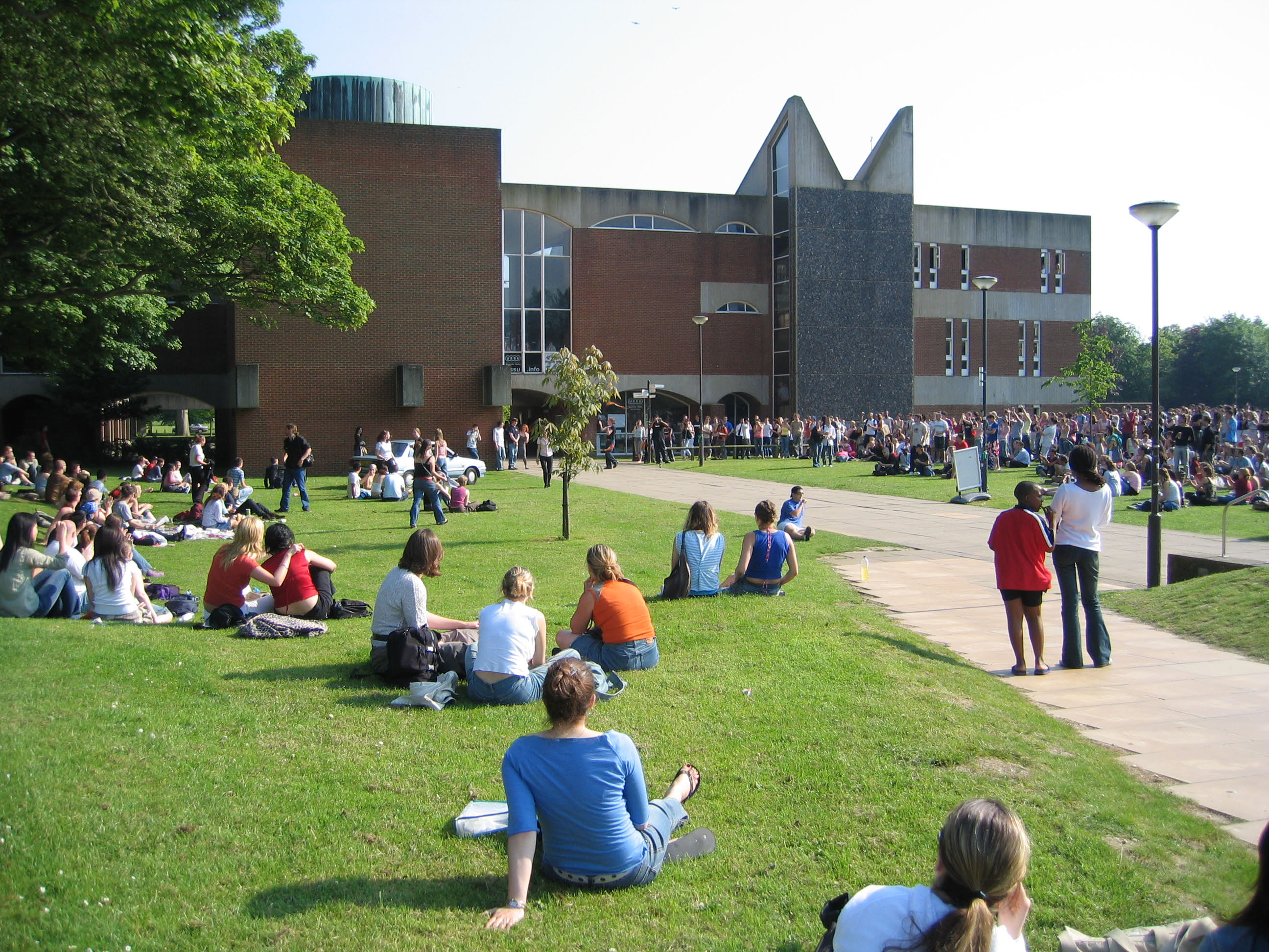 University of Sussex